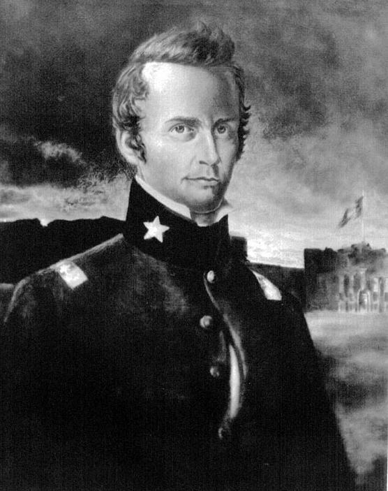 This is a painting of William Barret Travis, who died at the Battle of the Alamo in 1836.